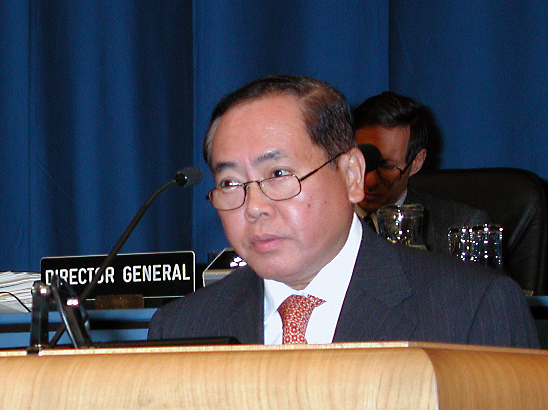 Historical IAEA - GC45 Speakers Speakers deliver their statement during the general debate at the IAEA 45th General Conference. IAEA, Vienna, Austria. September 2001. Mr. Victor G. Garcia III, Ambassador to Austria Resident Representative to the Agency Photo Credit: Dean Calma / IAEA